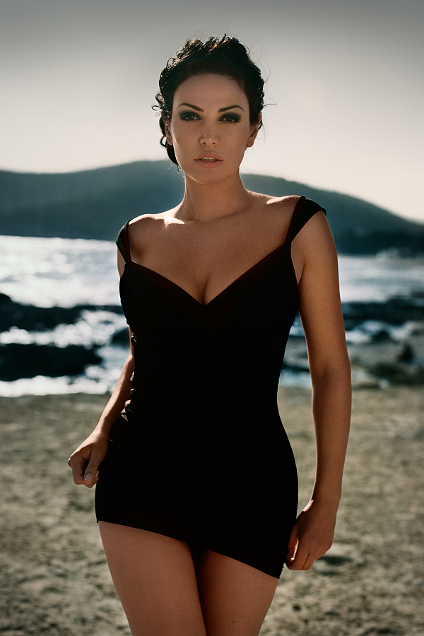 Bleona Qereti's Ibiza photo shoot by photographer Vincent Peters